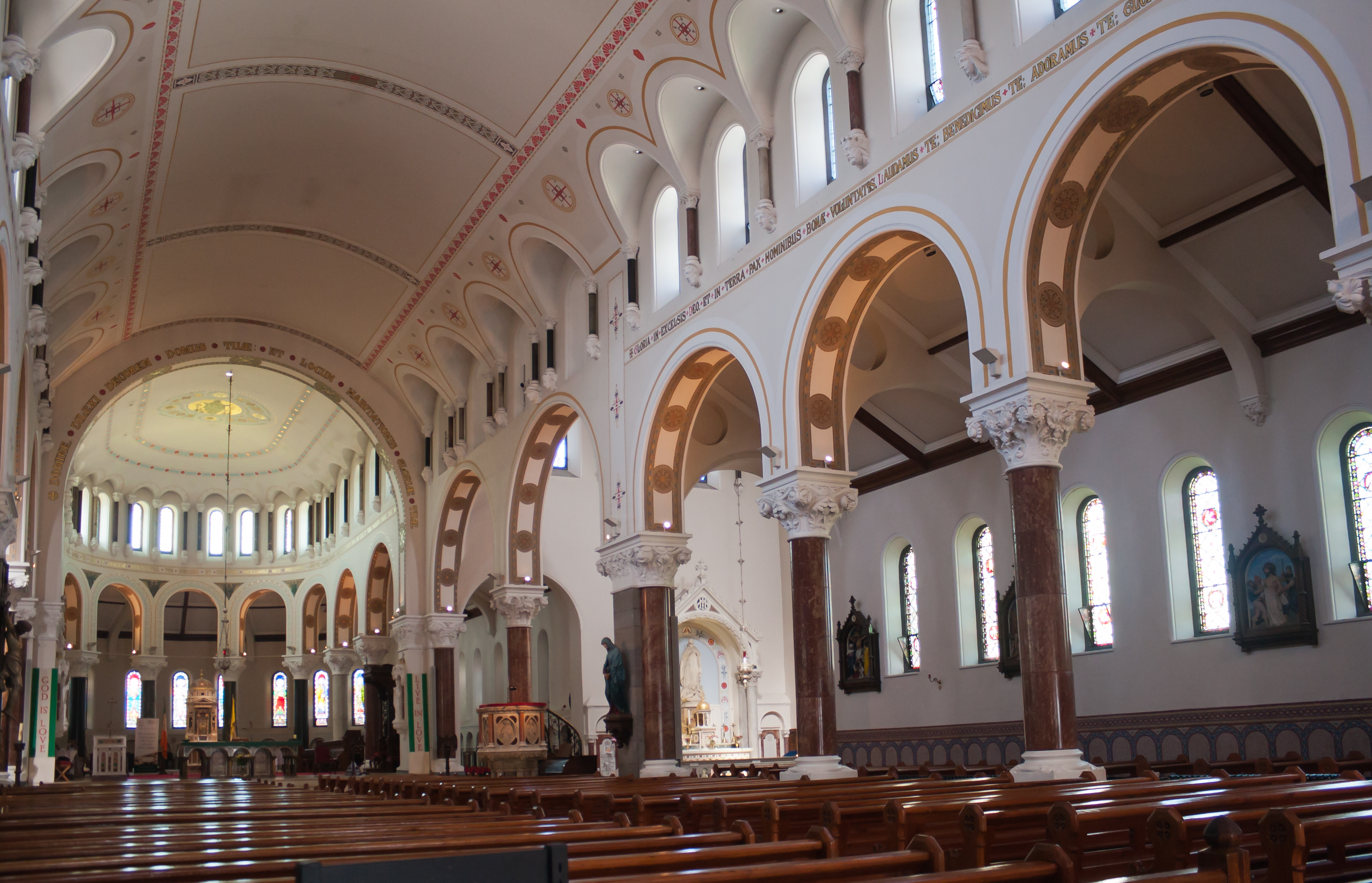 View into east aisle from the nave.